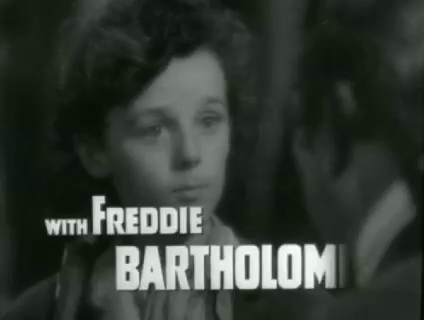 Freddie Bartholomew in Lloyd's of London 1936 Henry King